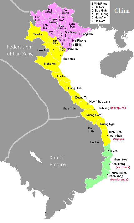 Vietnam circa 1540 showing the Mạc in control of the land north of the Red river, and the Nguyễn-Trịnh alliance in control of the southern part of Vietnam. Mạc lords Nguyễn-Trịnh lords Champa